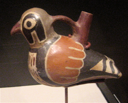 Peru, Early Nasca Bird-Shaped Vessel with Single Spout, 100 B.C. - A.D. 200 Vessel, Ceramic, hand built, slip painted, burnished and fired, 3 1/2 x 4 1/2 in. (8.89 x 11.43 cm) Gift of Nasli M. Heeramaneck (M.73.48.21) Wikipedia Loves Art at the Los Angeles County Museum of Art This photo of item # M.73.48.21 at the Los Angeles County Museum of Art was contributed under the team name "artifacts" as part of the Wikipedia Loves Art project in February 2009. Los Angeles County Museum of Art The original photograph on Flickr was taken by joel.parham—please add a comment to the original Flickr page whenever a use has been made on Wikipedia or another project. Project galleries on Flickr: this institution, this team